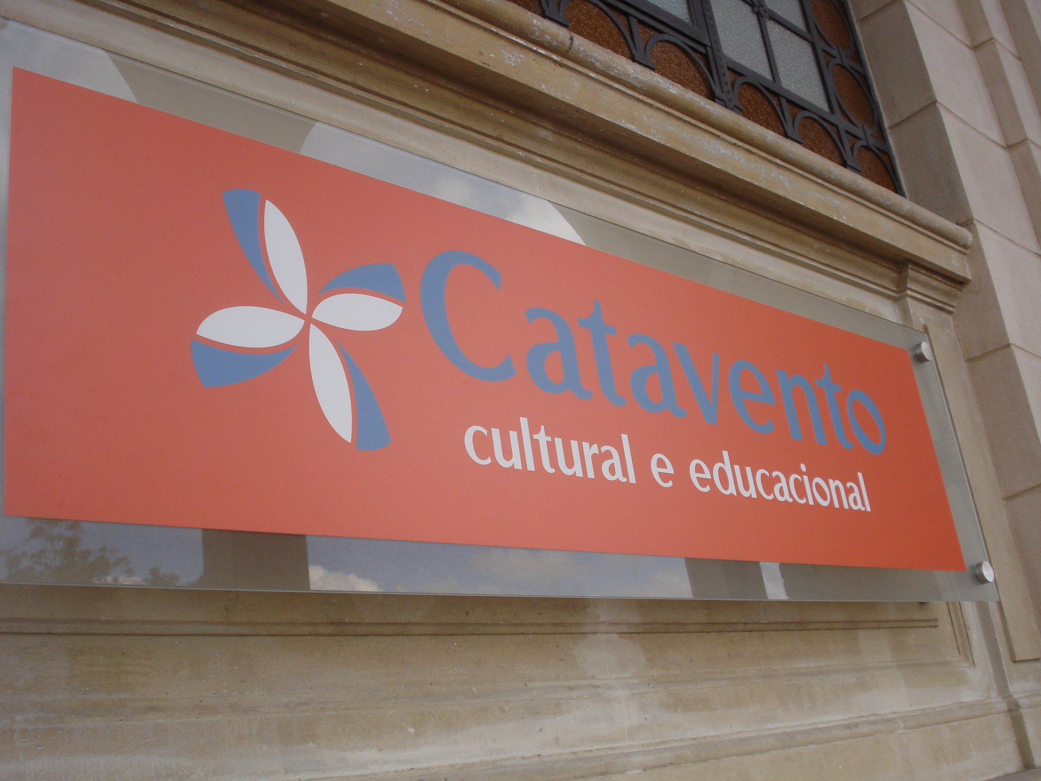 Logo of the Catavento science museum, in São Paulo, Brazil.